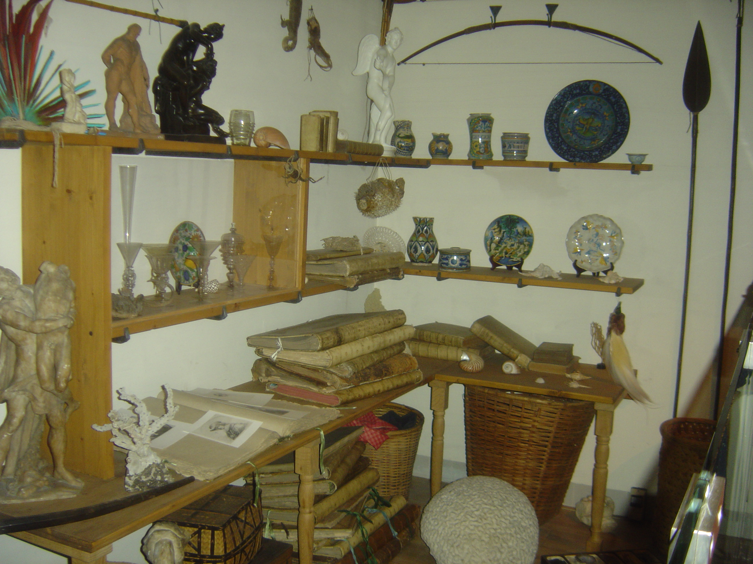 Objects of Art in Rembrandt House-Museum